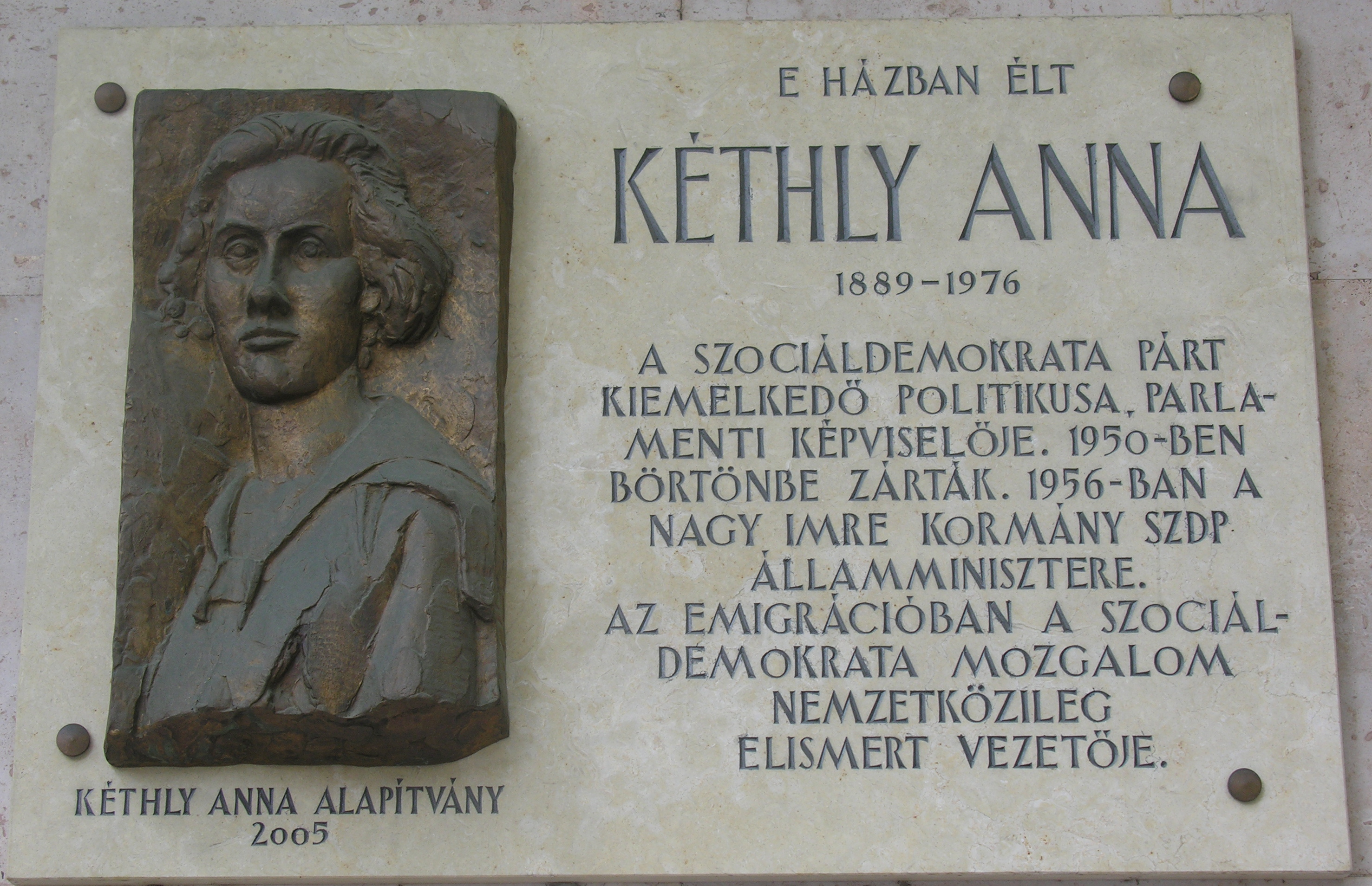 Commemorative plaque of Anna Kéthly in Budapest District XIII, Pozsonyi Street No 40